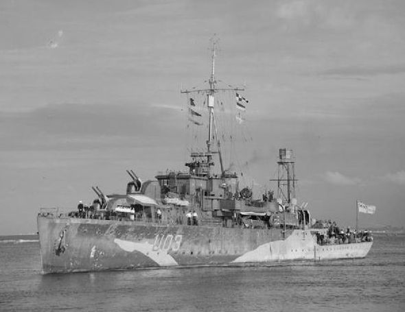 British Black Swan class sloop HMS ERNE arrives at Algiers as part of a troop convoy. (cropped version avoiding top left obscuration) Oringinal version File:HMS Erne (U03) IWM A 15632.jpg